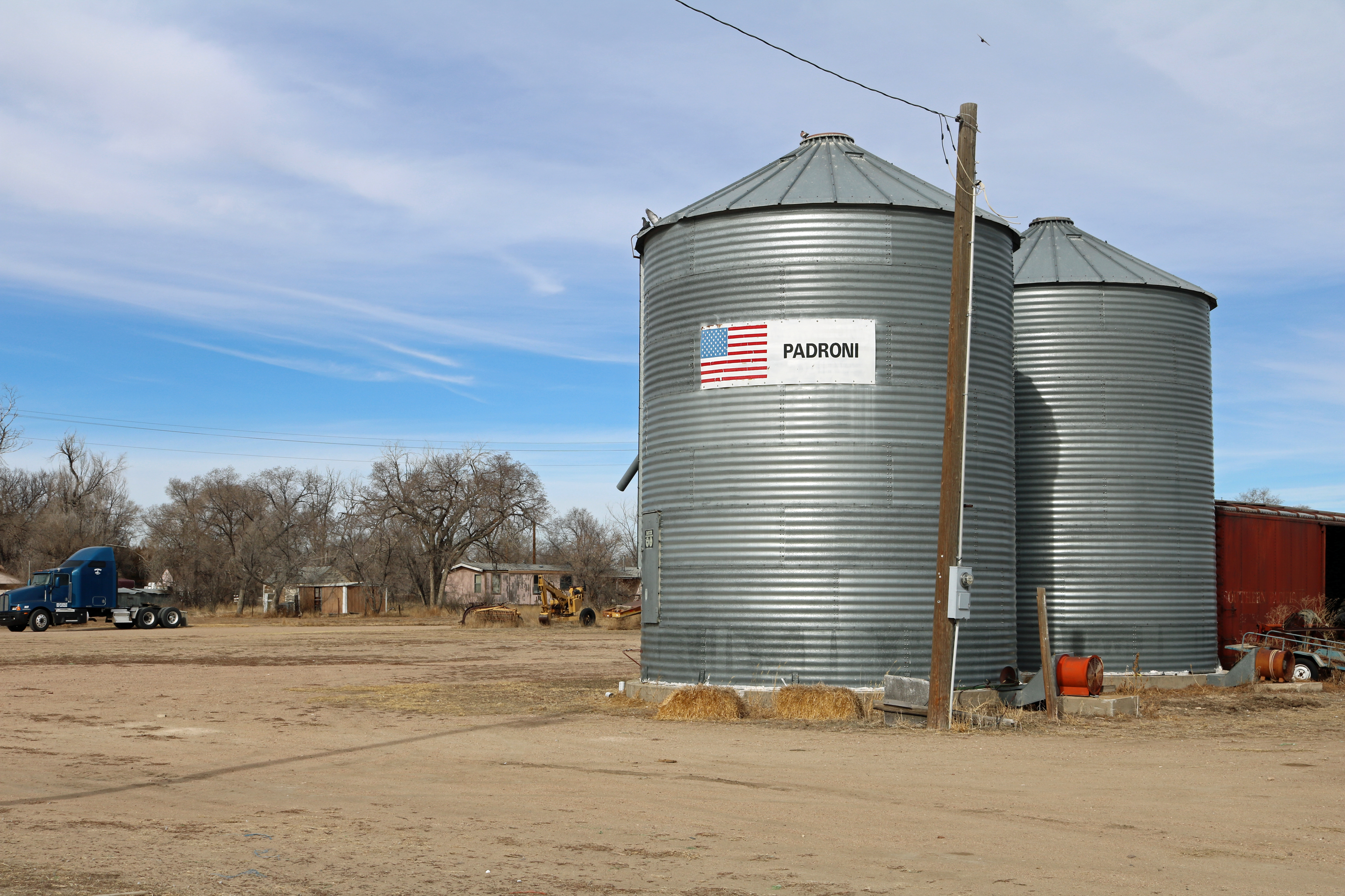 Padroni, Colorado in Logan County. The picture shows two grain silos in Padroni.